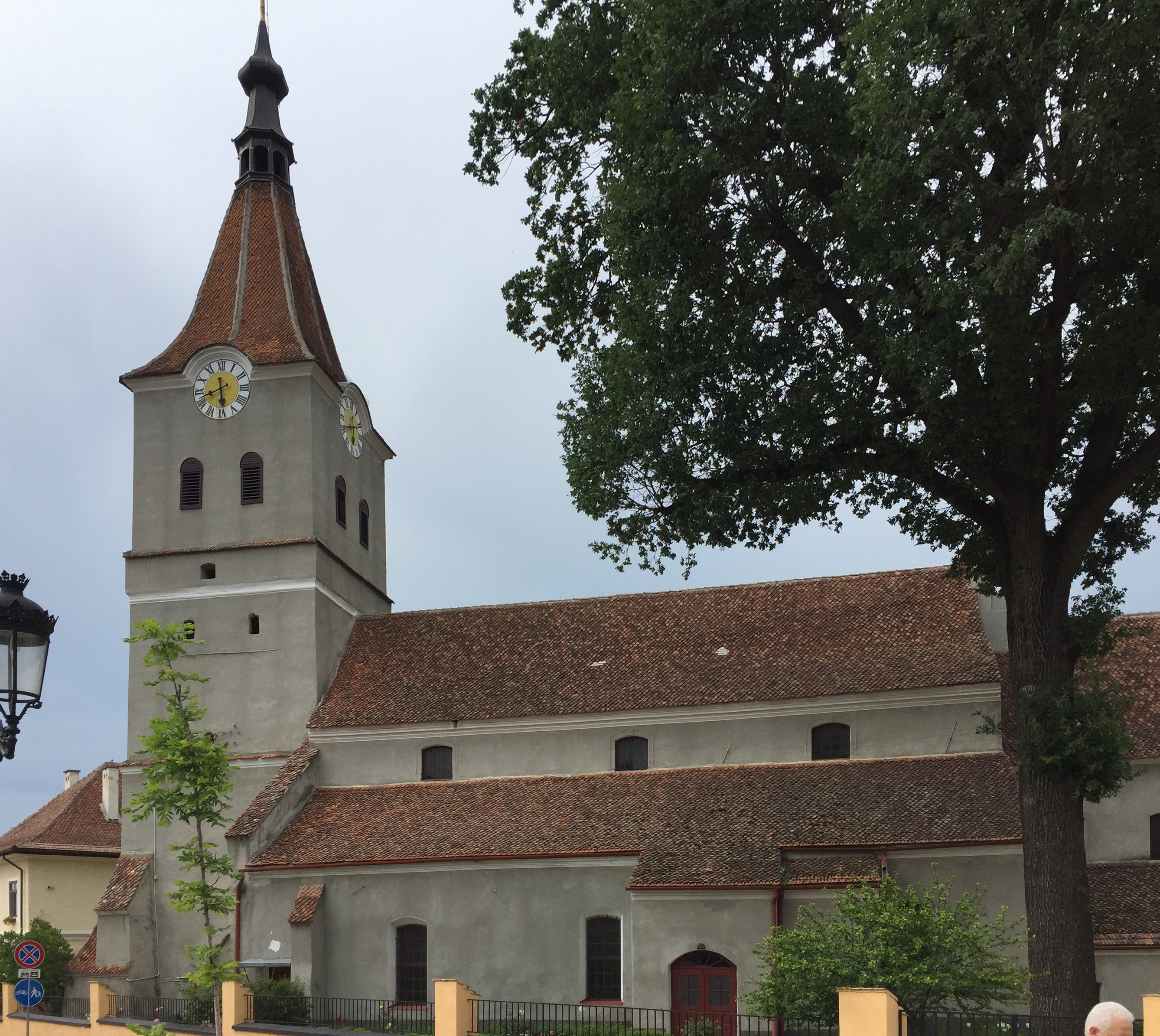 Lutheran church of Râșnov, Transylvania, Romania